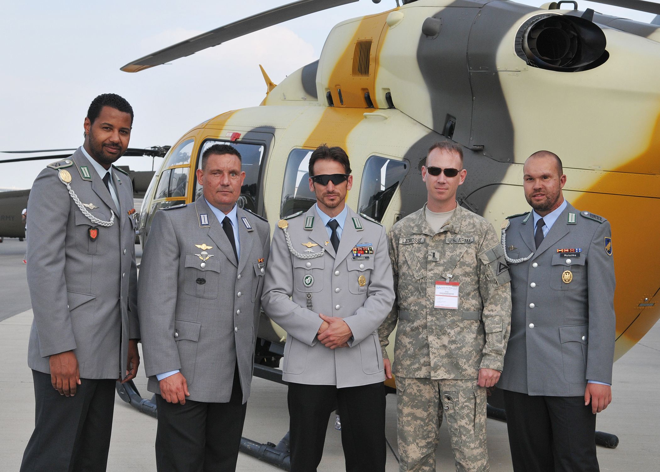 BERLIN - Army Chief Warrant Officer 3 Jason Lacrosse, Joint Multinational Readiness Center Falcons instructor pilot, Hohenfels, Germany, reunites with German soldiers here Sept. 11, 2012 at the Berlin Air Show. Three of the German soldiers were rescued by Lacrosse and fellow soldiers in Afghanistan and the fourth was a member of the Joint Tactical Air Command that was involved in the operation. From left to right: unknown, Hauptfeldwebel Ralf Rönckendorf, unknown, Army Chief Warrant Officer 3 Jason Lacrosse, Stabsgefreiter Maik Mutschke